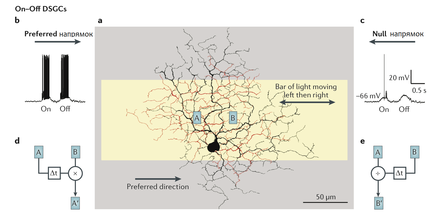 The response of ON-OFF DSGC to stimulus in the null and preferred direction.